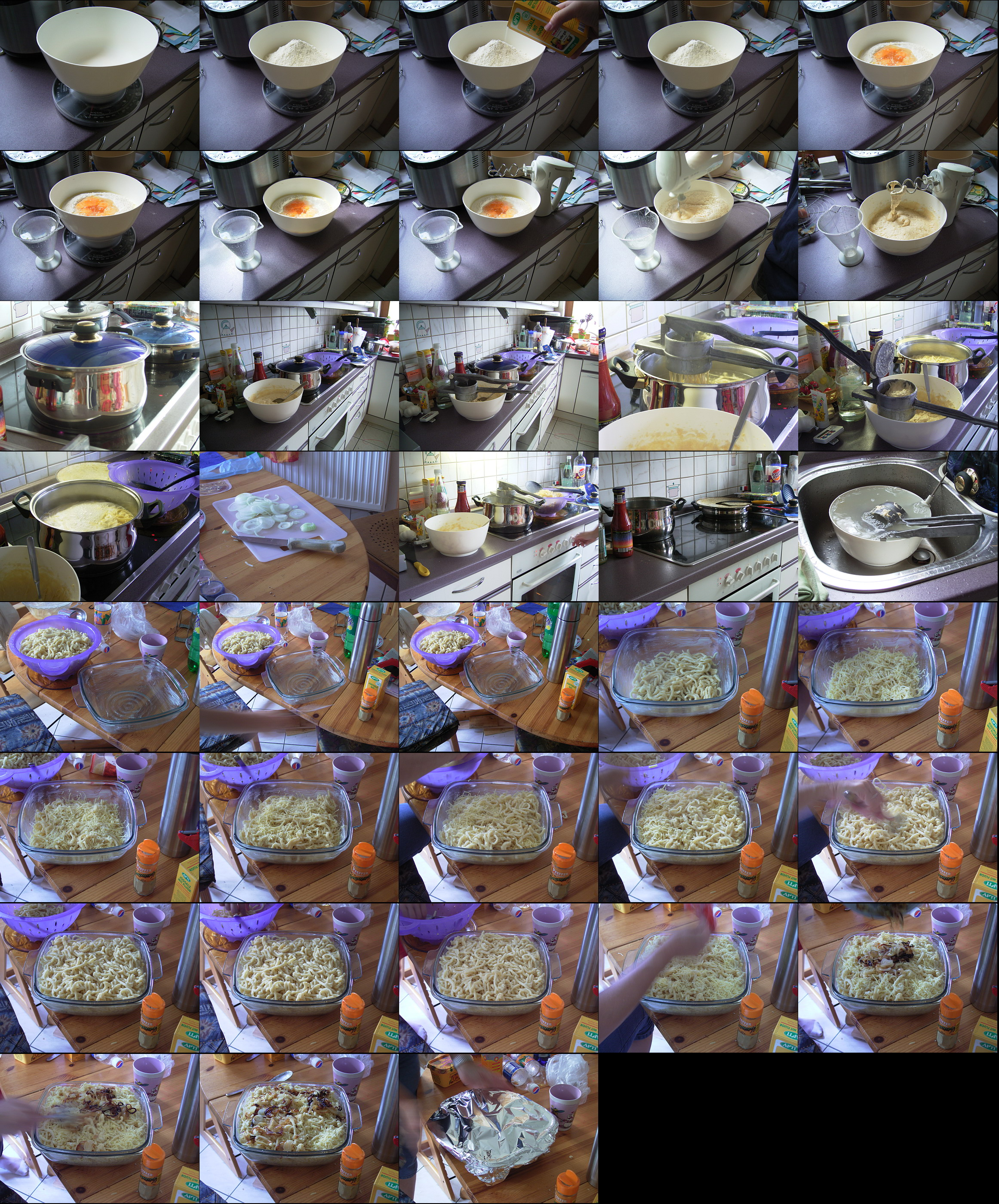 Step by step preparation of cheese spätzle using a spätzle press